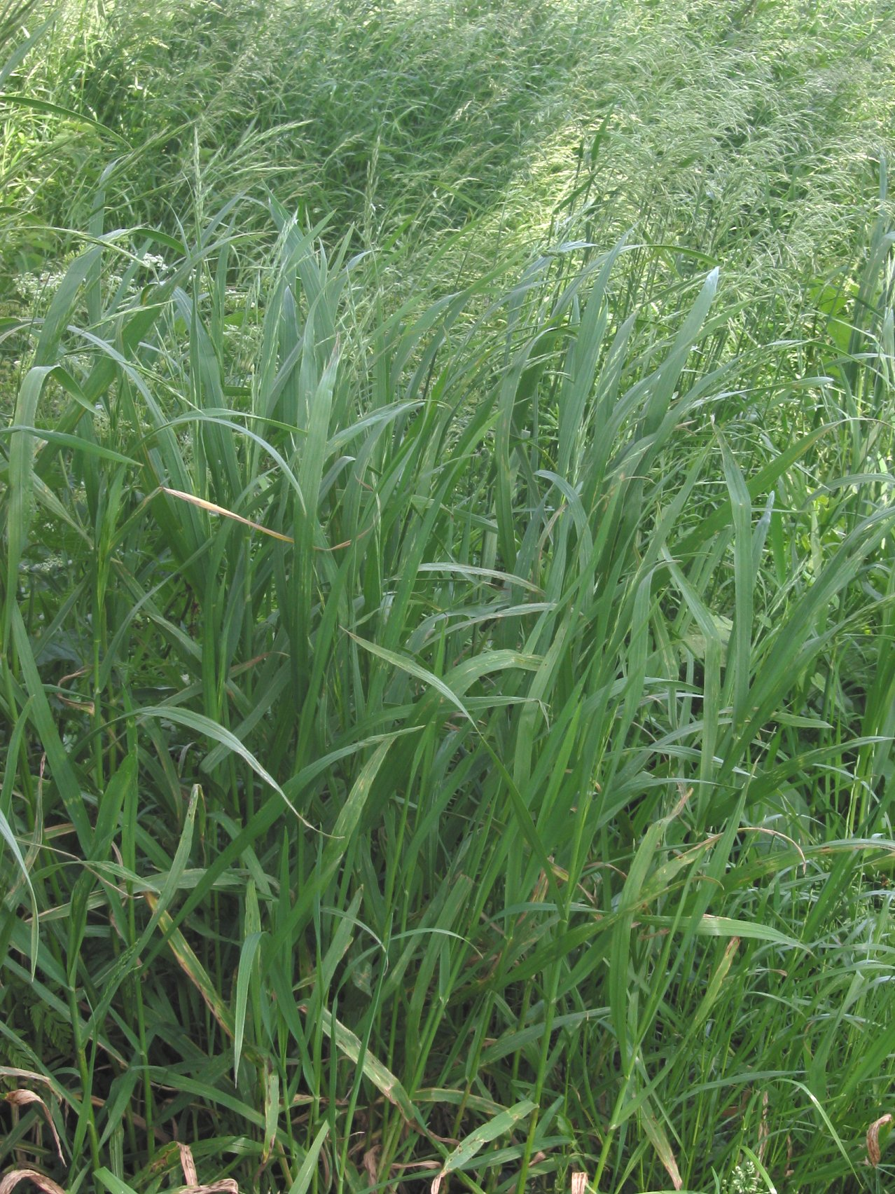 Species Bromus commutatus, Syn.: Bromus racemosus subsp. commutatus; Picture taken by myself: (nl: Velddravik) ((GFDL)) Bromus racemosus